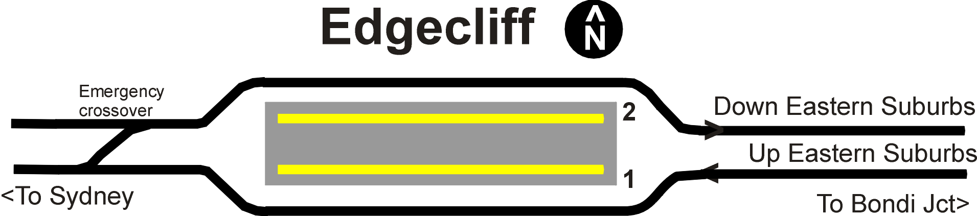 Trcak layout at Edgecliff railway station, Sydney